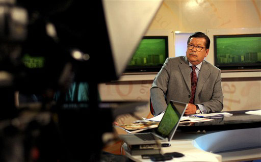 Host of Globovision's opinion show Leopoldo Castillo